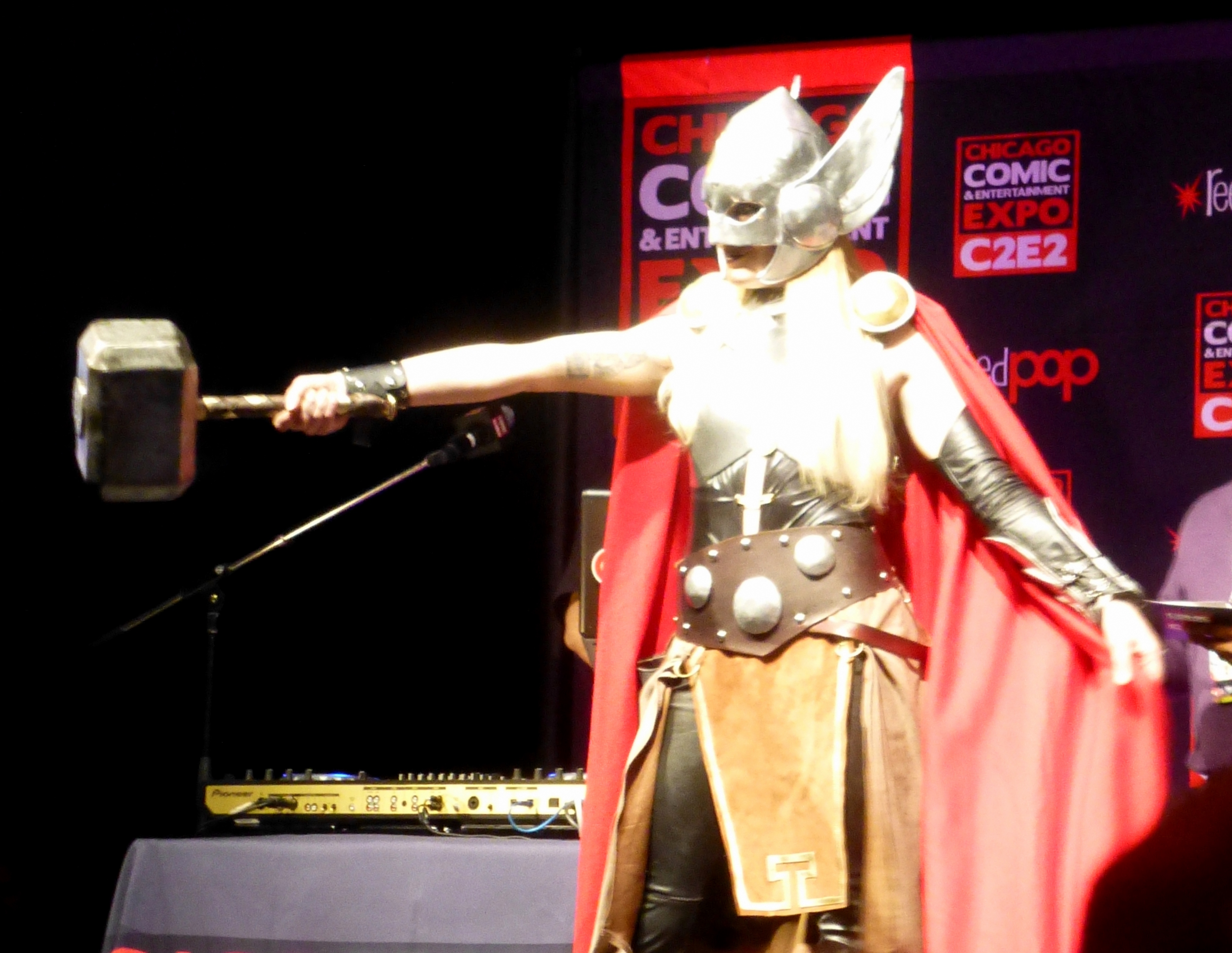 Sarah Jean Maefs-Lady Thor Cosplay at Chicago Comic & Entertainment Expo (C2E2) 2015.